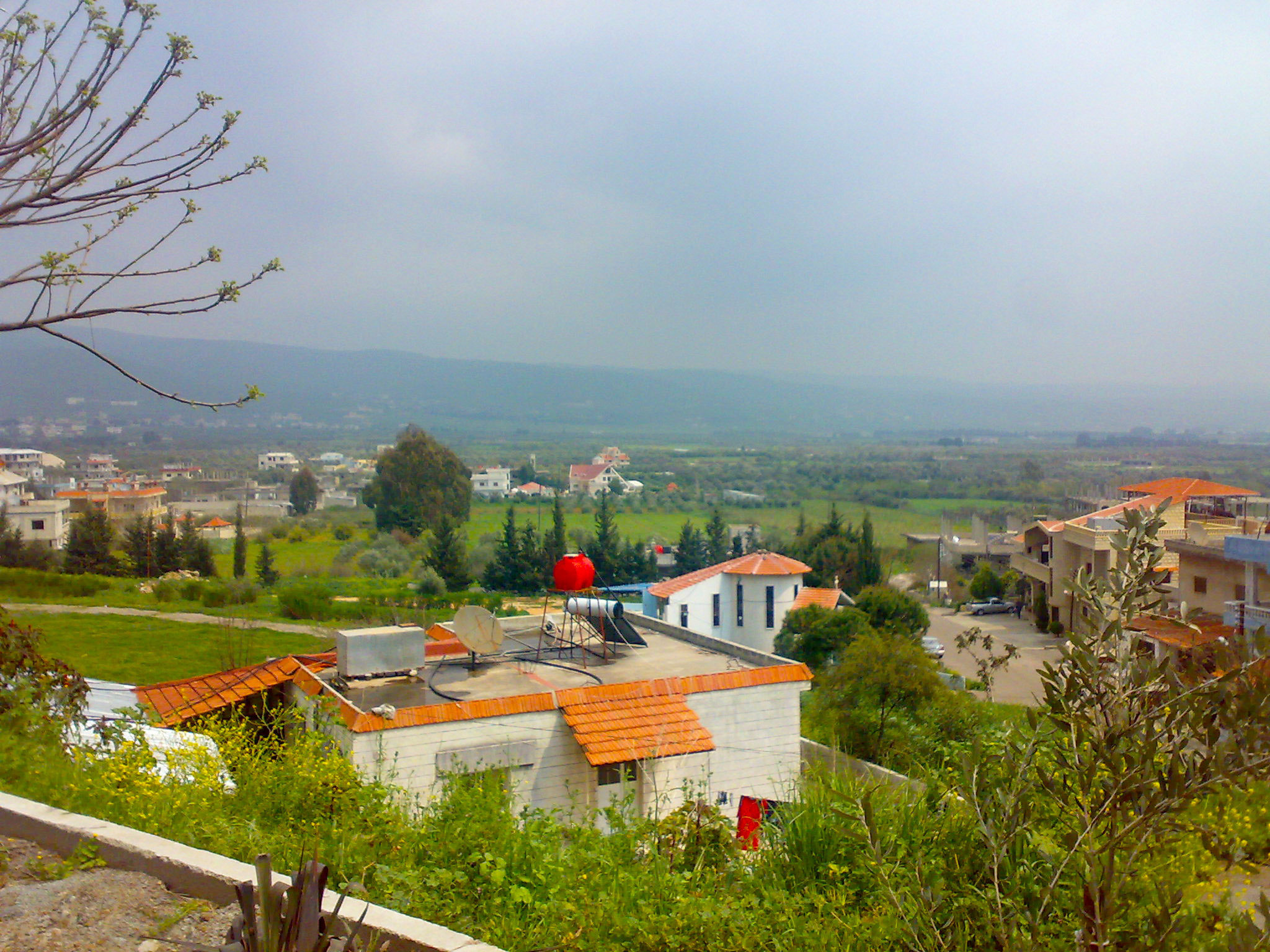 Alhwash